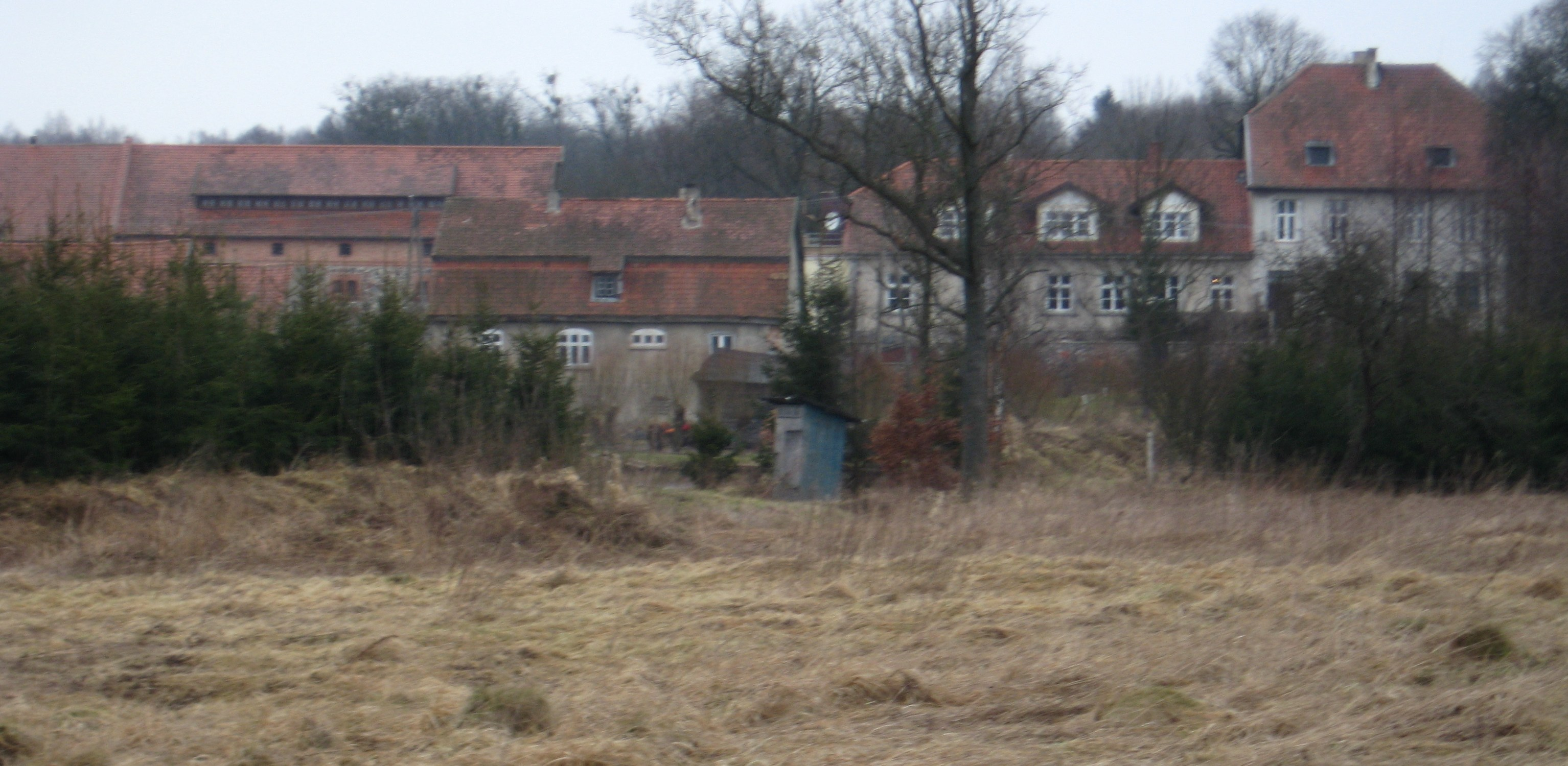 Worpławki - Google Maps - Google Earth